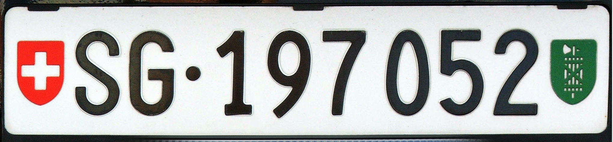 Vehicle licence plate from Switzerland as seen in 2007. "SG" stands for the canton of Sankt Gallen